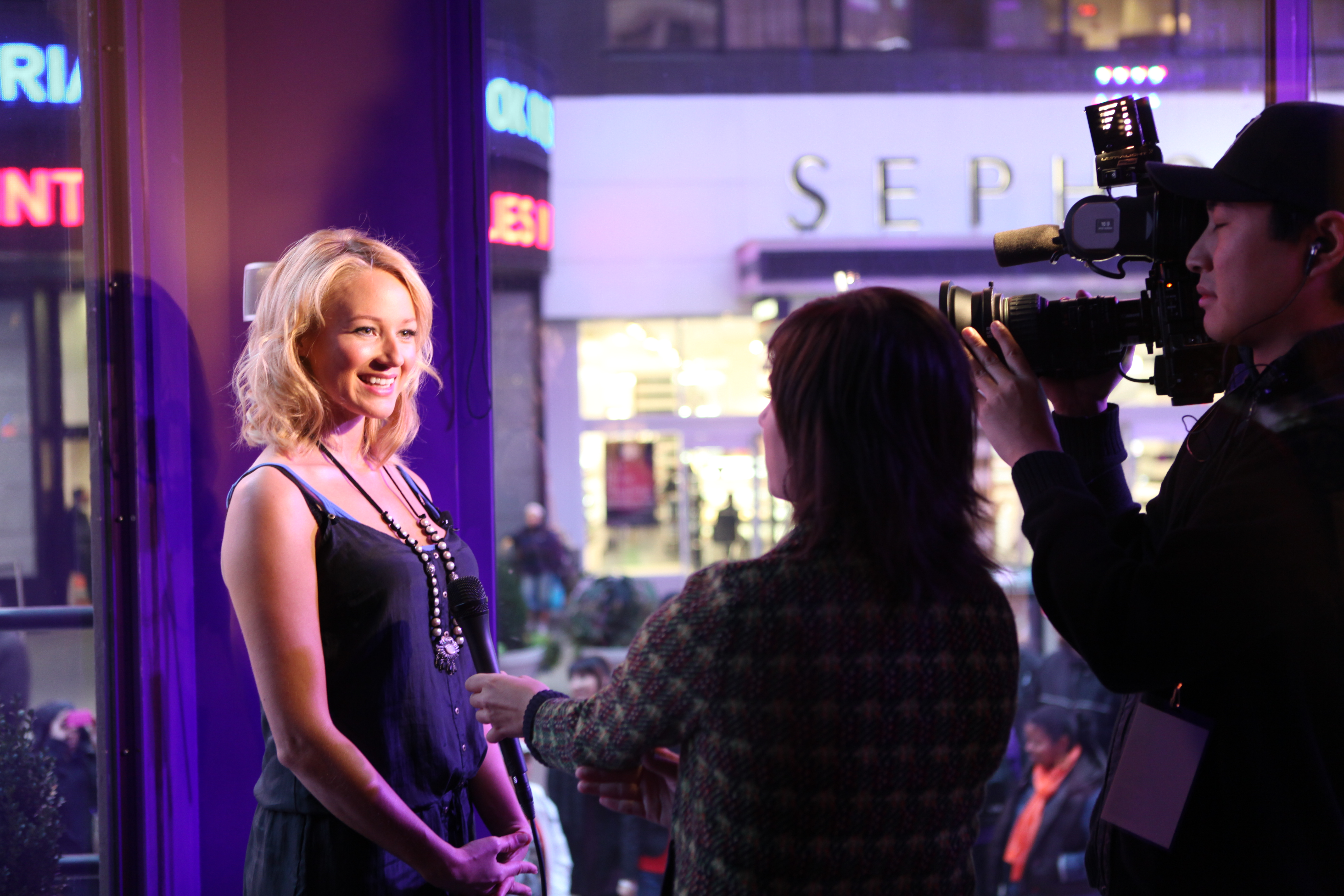 Jewel Kilcher in the recording studio at Yodel Studio in NYC.